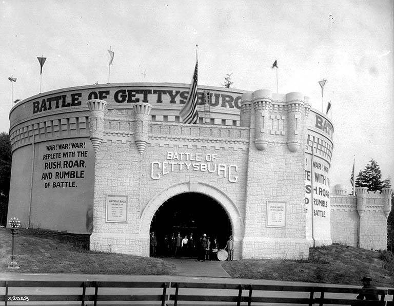 Painted on building: "War! War! War! Replete with the rush, roar and rumble of battle."PH Coll 727.658 Subjects (LCSH): Battle of Gettysburg Building (Seattle, Wash.); Exhibition buildings--Washington (State)--Seattle; Pay Streak (Seattle, Wash.); Alaska-Yukon-Pacific Exposition (1909 : Seattle, Wash.); Exhibitions--Washington (State)--Seattle